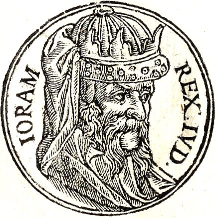 Joran(Jehoram of Judah) was the king of the southern Kingdom of Judah, and the son of Jehoshaphat.